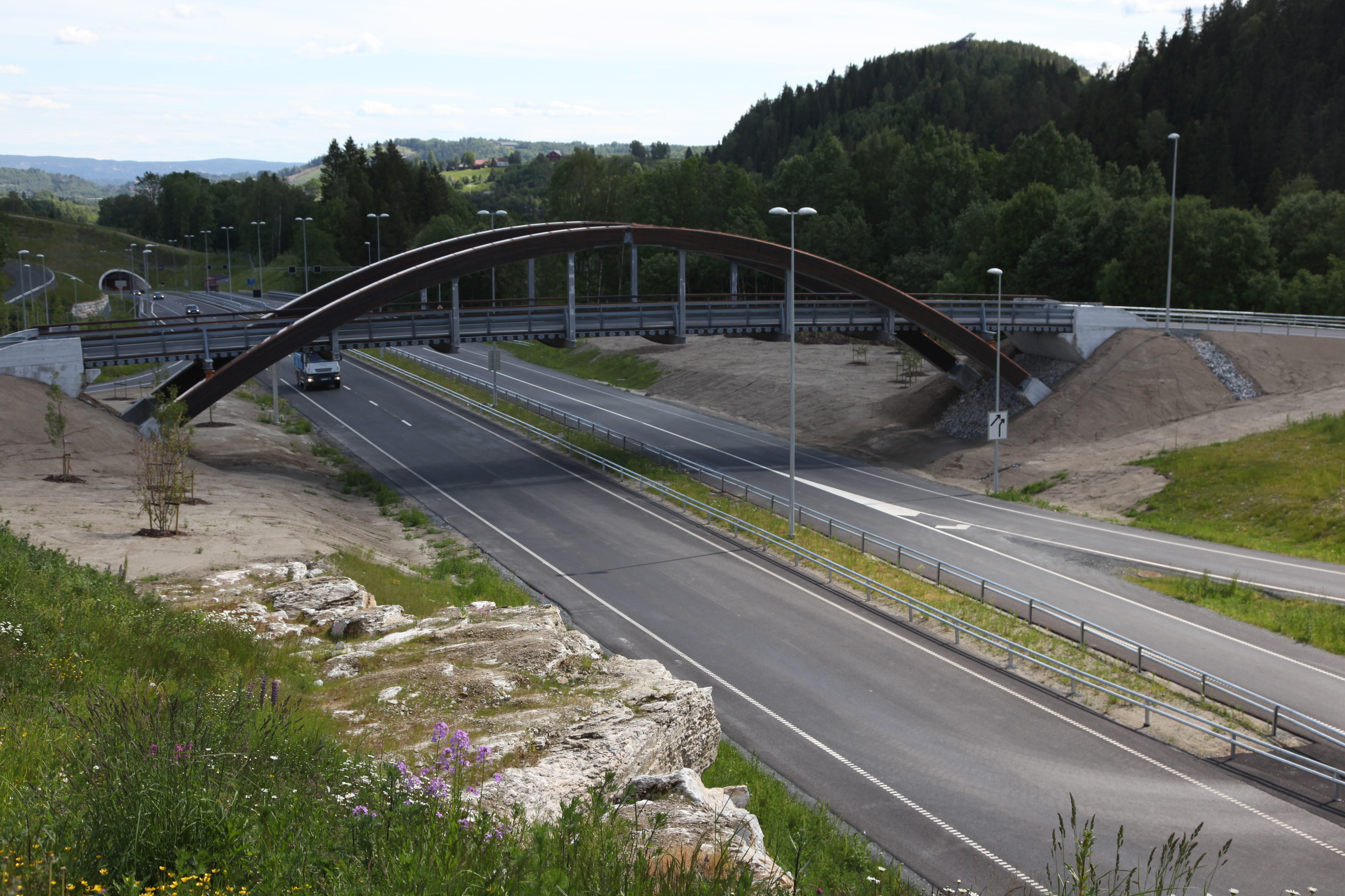 Motorway from Isi in Bærum in the direction of Sandvika